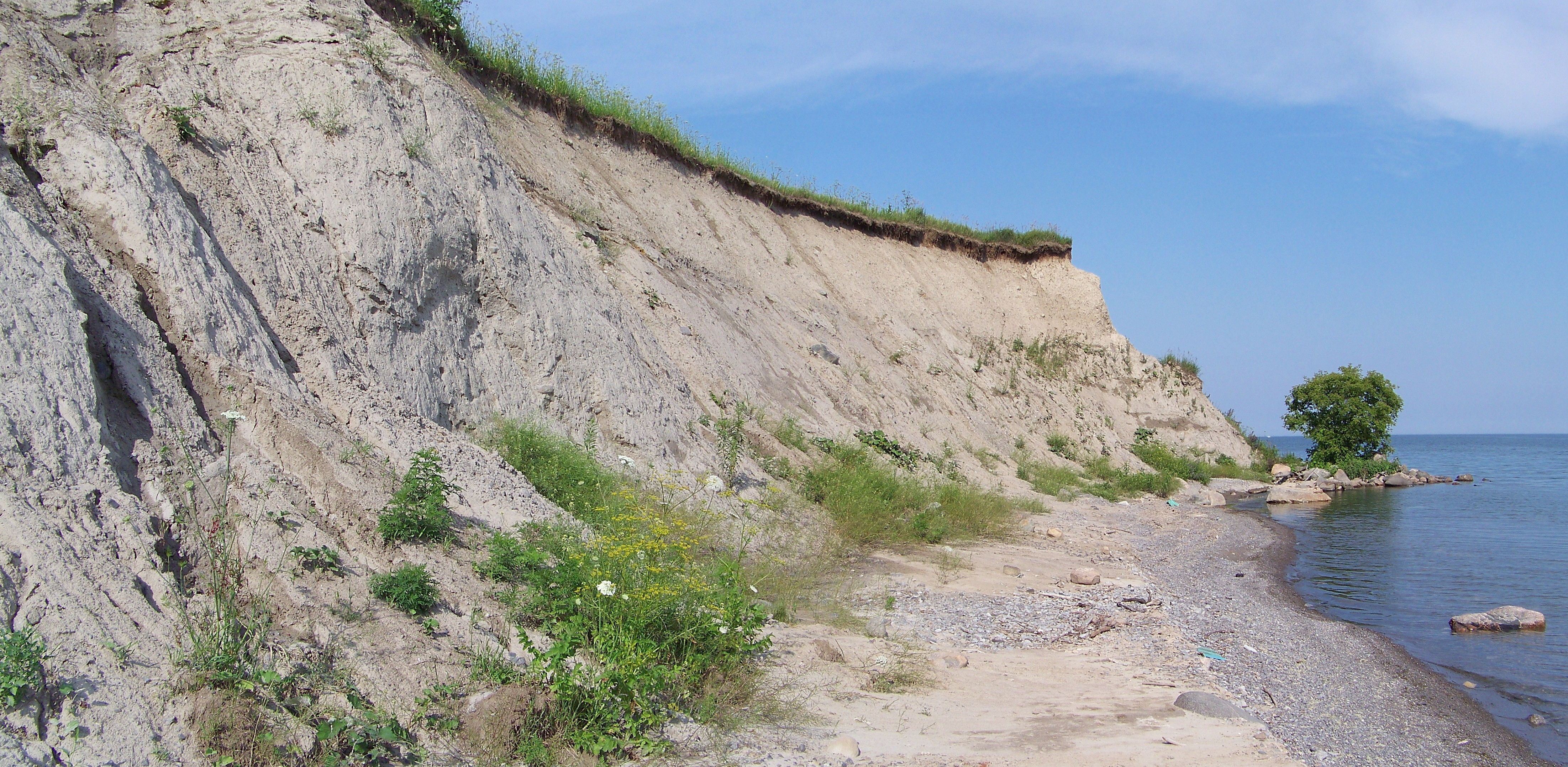 Stone-poor, carbonate-derived silty to sandy till cliff in Clarington, Ontario.